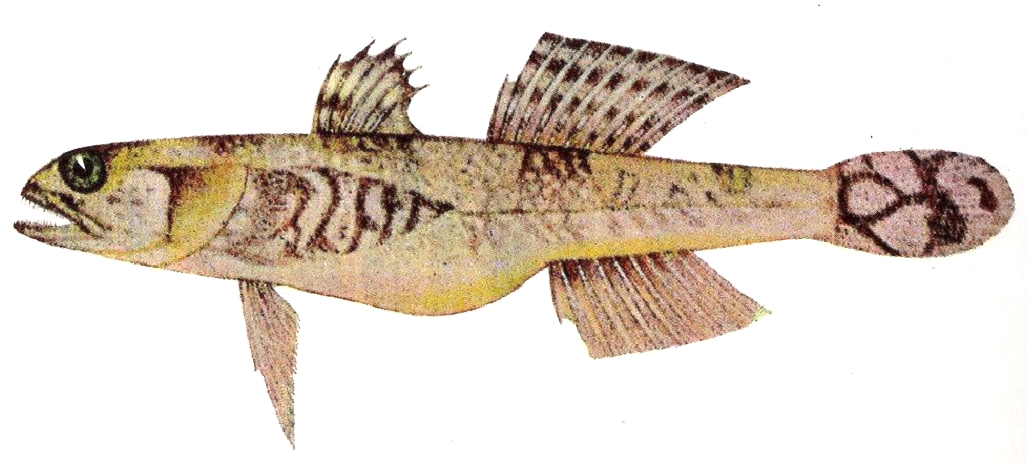 Schismatogobius insignus (Herre, 1927)